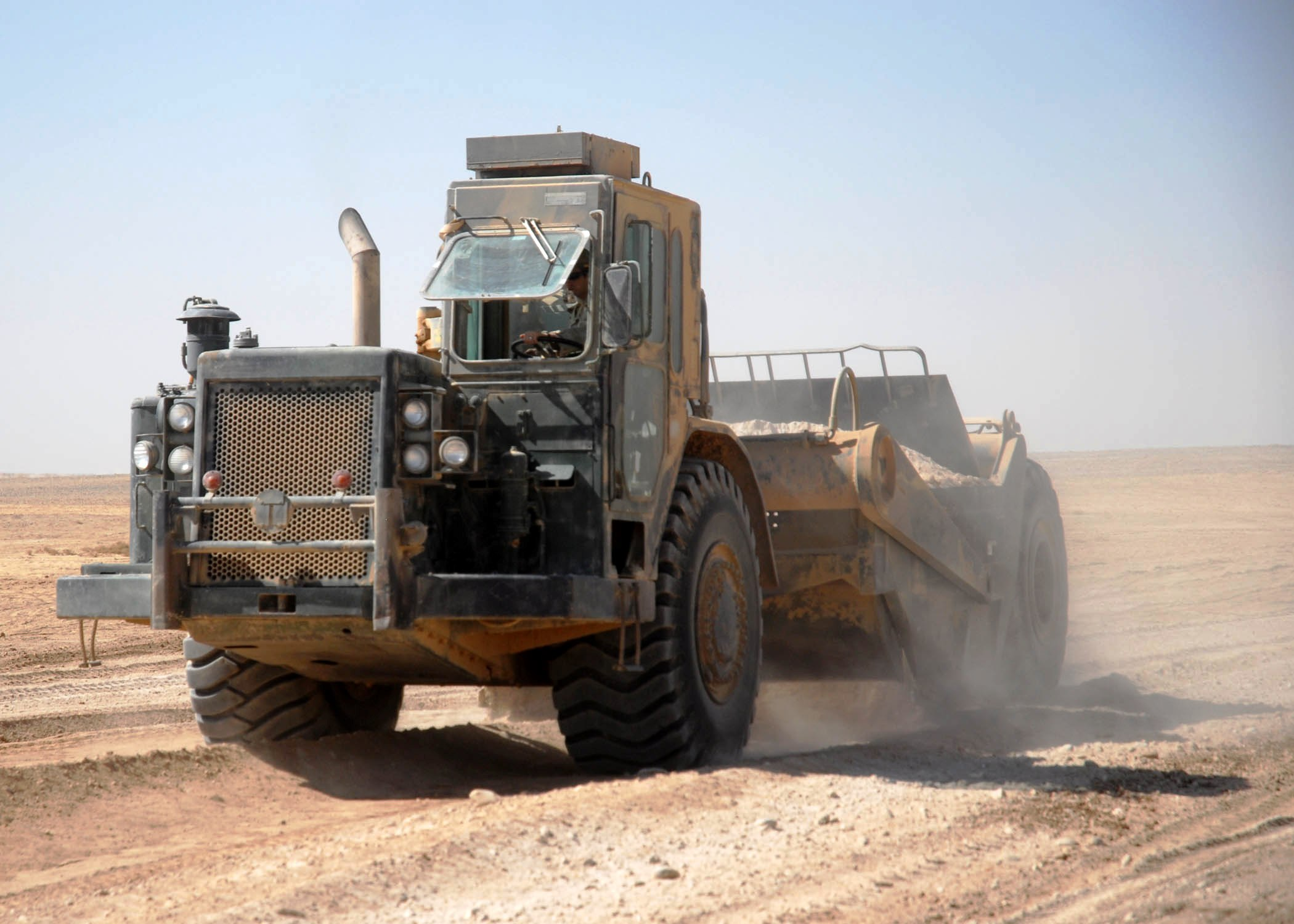 A wheel tractor-scraper of Naval Mobile Construction Battalion 74 in Helmand province, Afghanistan.